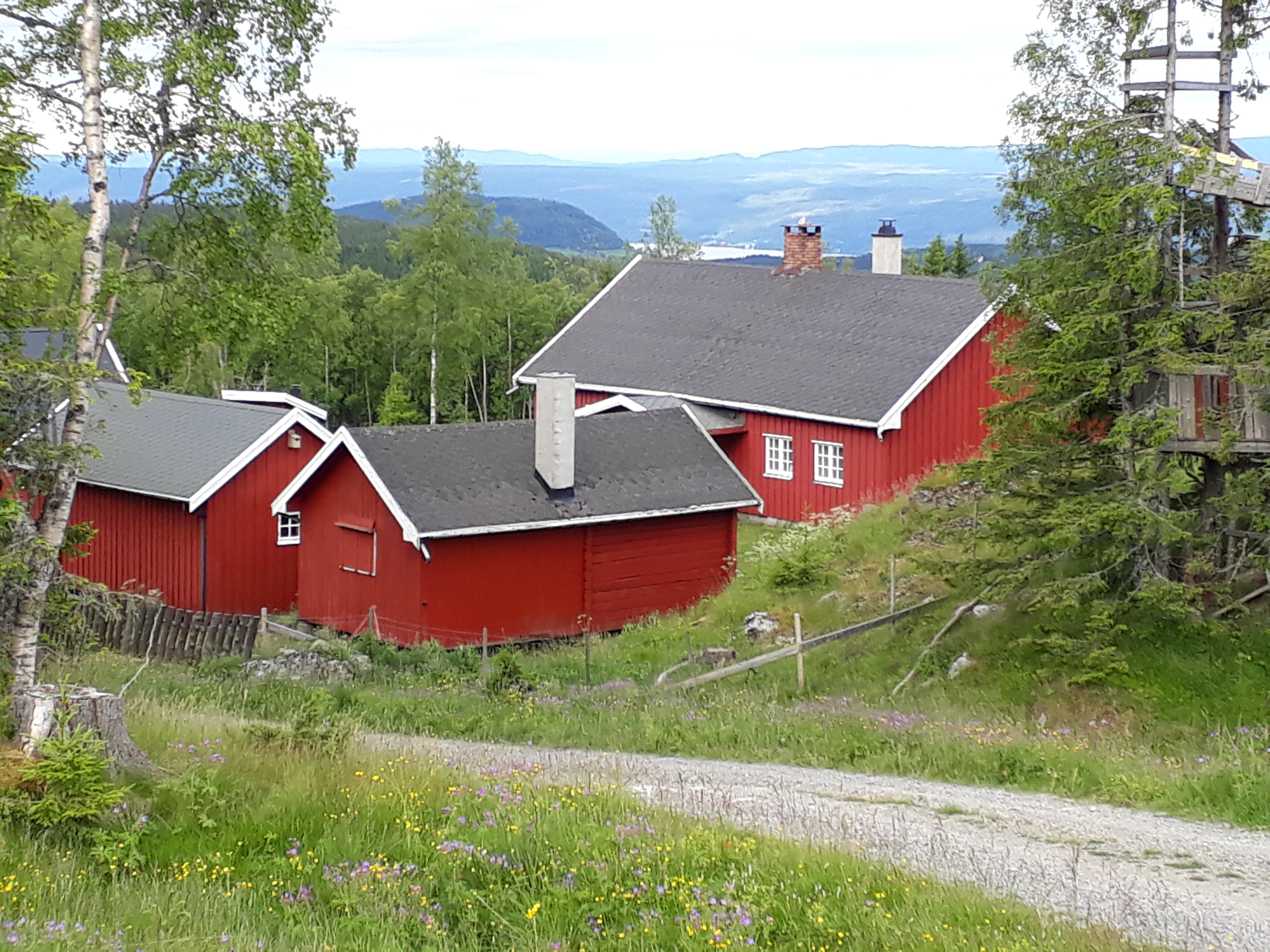 Høgkorsplassen